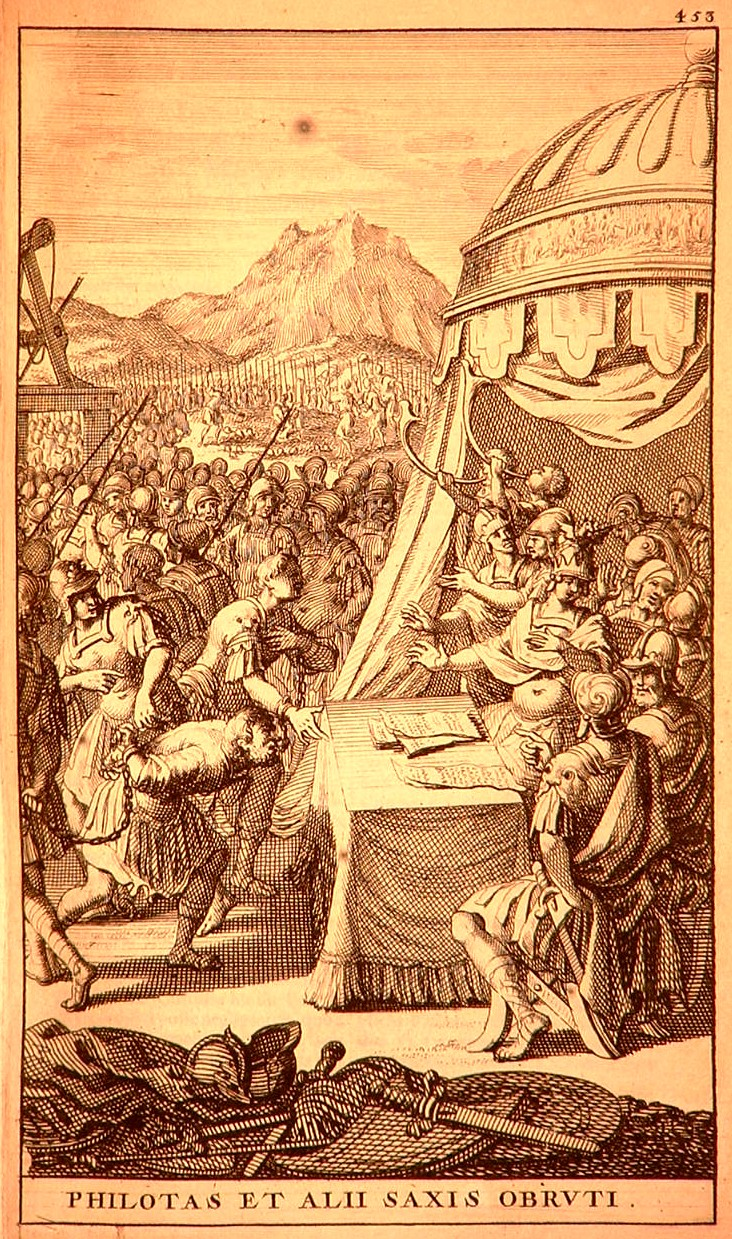 Philotas and other conspirators condemned and stoned to death.